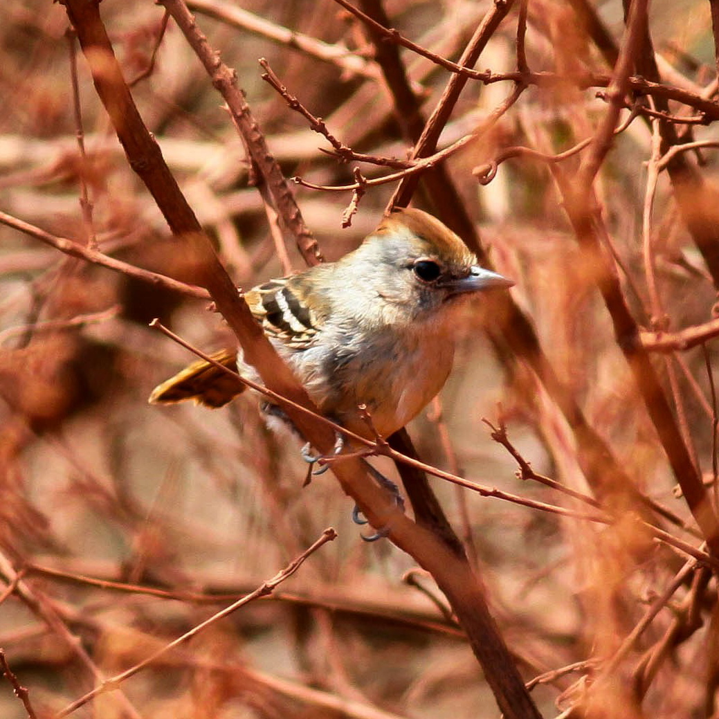 Silvery-cheeked Antshrike, Sakesphorus cristatus, (fm)